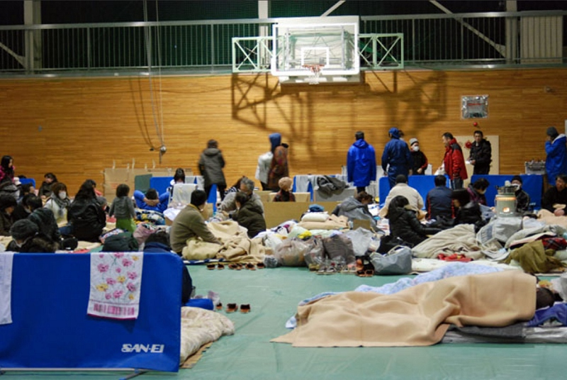 Japanese evacuees at Koriyama High School gymnasium, Koryiama, Fukushima Prefecture